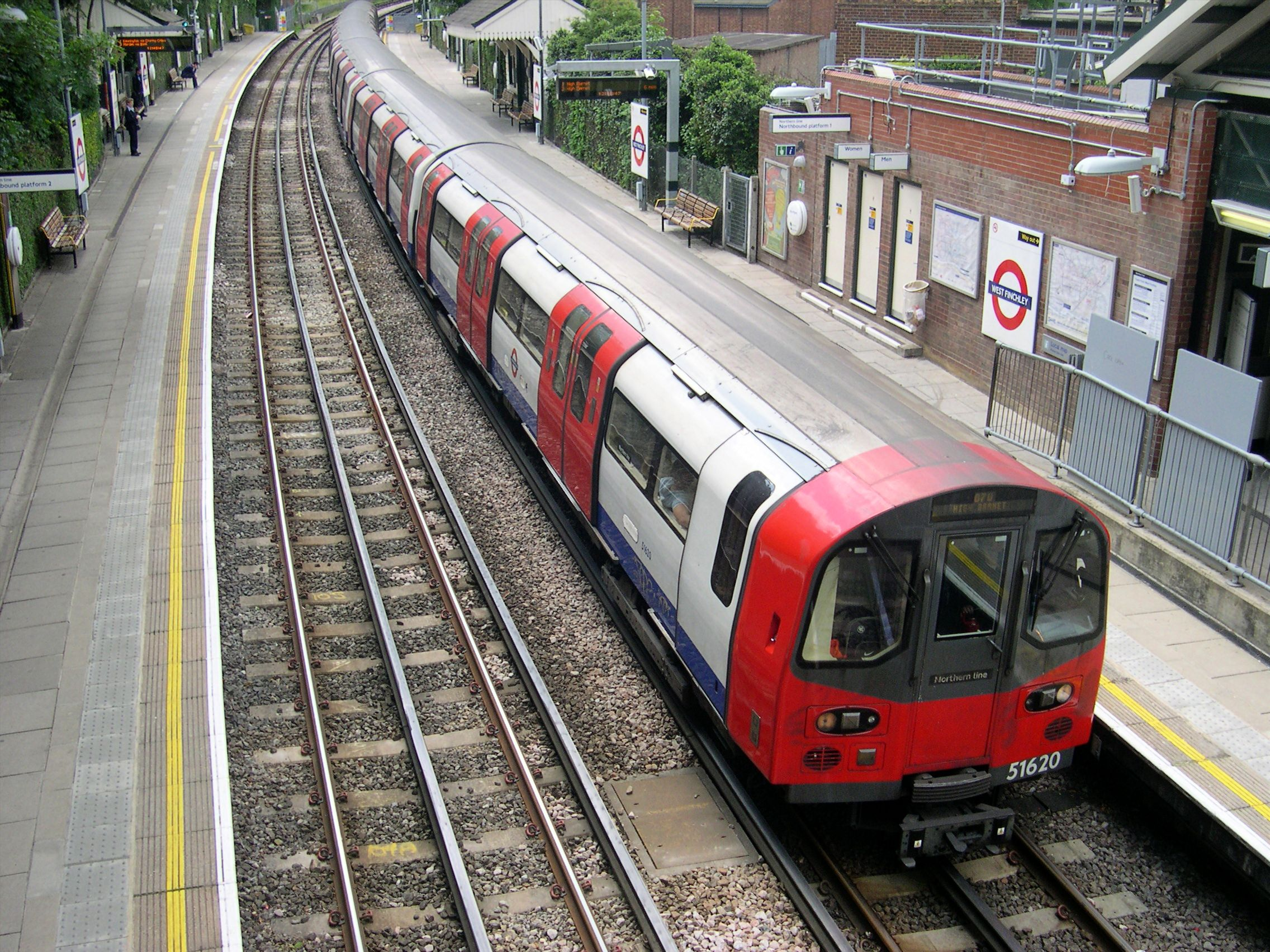 A 1995 tube stock train at West Finchley Station